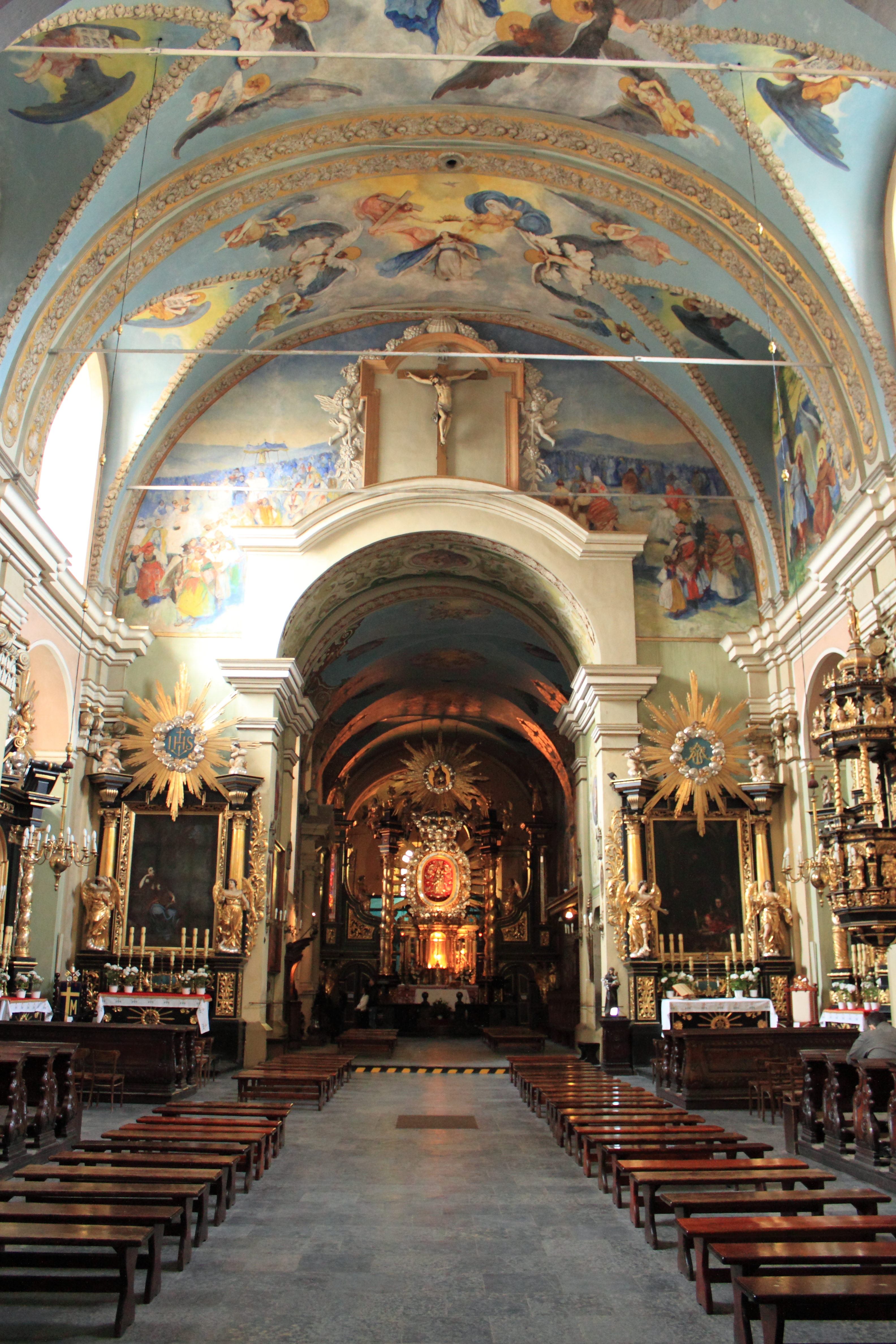 The interior of the basilica in Kalwaria Zebrzydowska view from the choir.